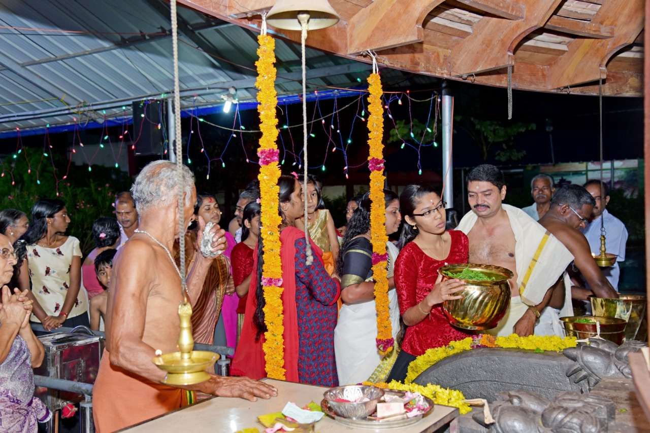 Navarathri Pooja